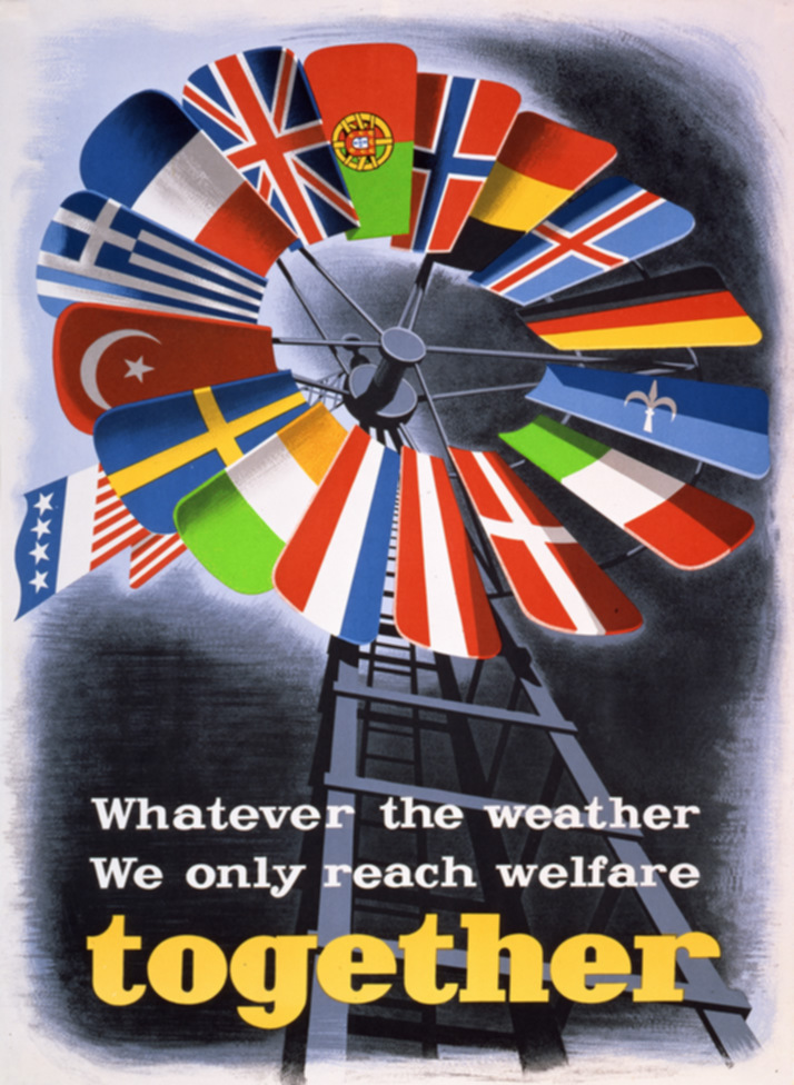 One of a number of posters created by the Economic Cooperation Administration, an agency of the U.S. government, to sell the Marshall Plan in Europe. Includes versions of the flags of those Western European countries that received aid under the Marshall Plan (clockwise from top: Portugal, Norway, Belgium, Iceland, West Germany, the Free Territory of Trieste (erroneously with a blue background instead of red), Italy, Denmark, Austria, the Netherlands, Ireland, Sweden, Turkey, Greece, France and the United Kingdom). Poster does not explicitly depict Luxembourg (whose flag is very similar to the Dutch flag), which did receive some aid.